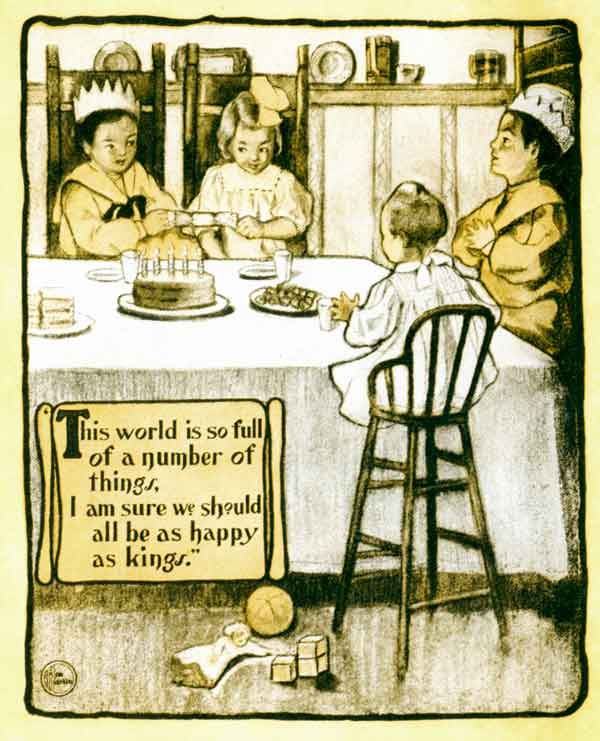 Image with caption: "This world is so full of a number of things, I am sure we should all be as happy as kings." (from Robert Louis Stevenson), A Little Book for A Little Cook